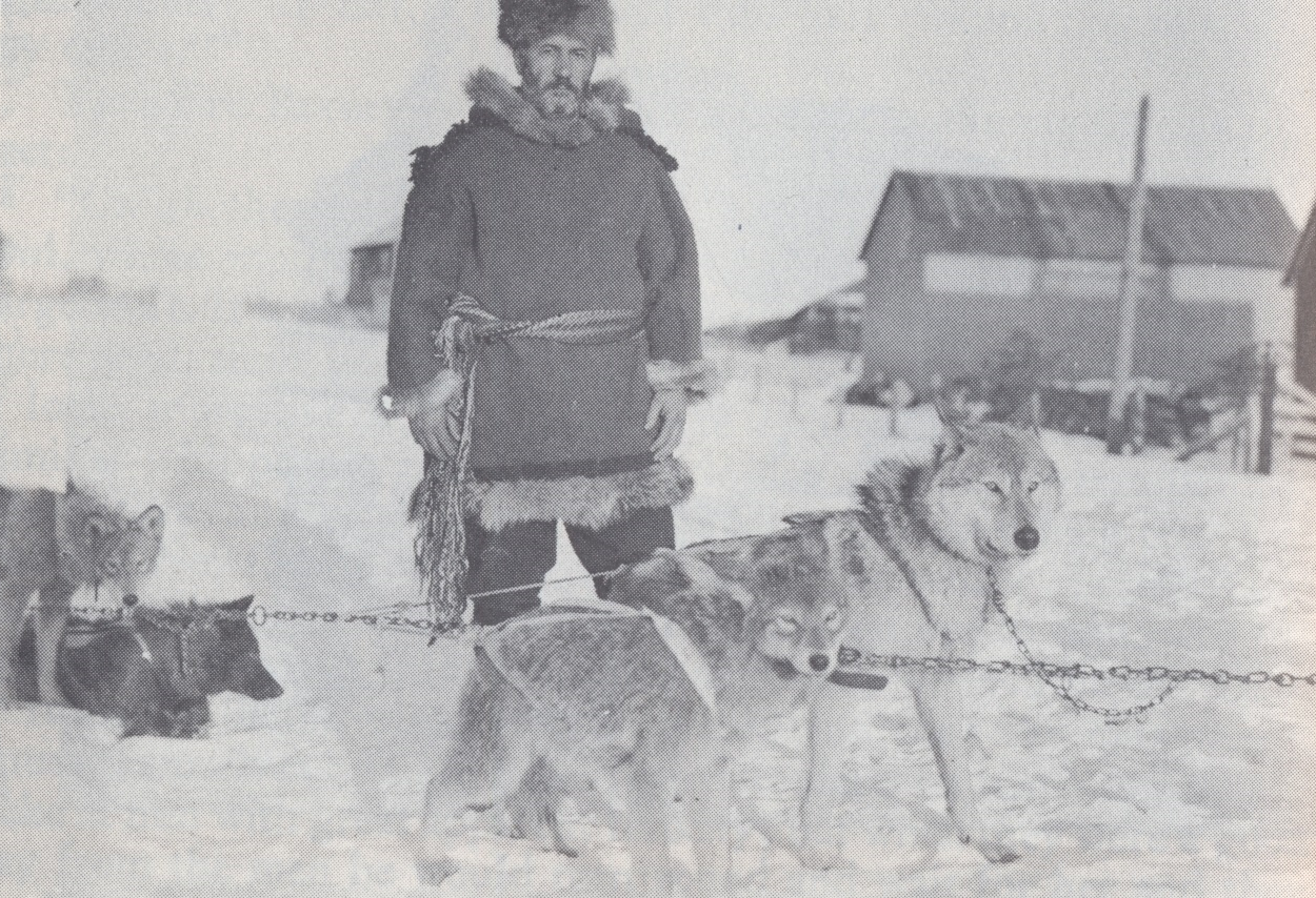 Wolves and one coyote (foreground) used as draught animals by Joe LaFlame of Gogama, northern Ontario, 1923.